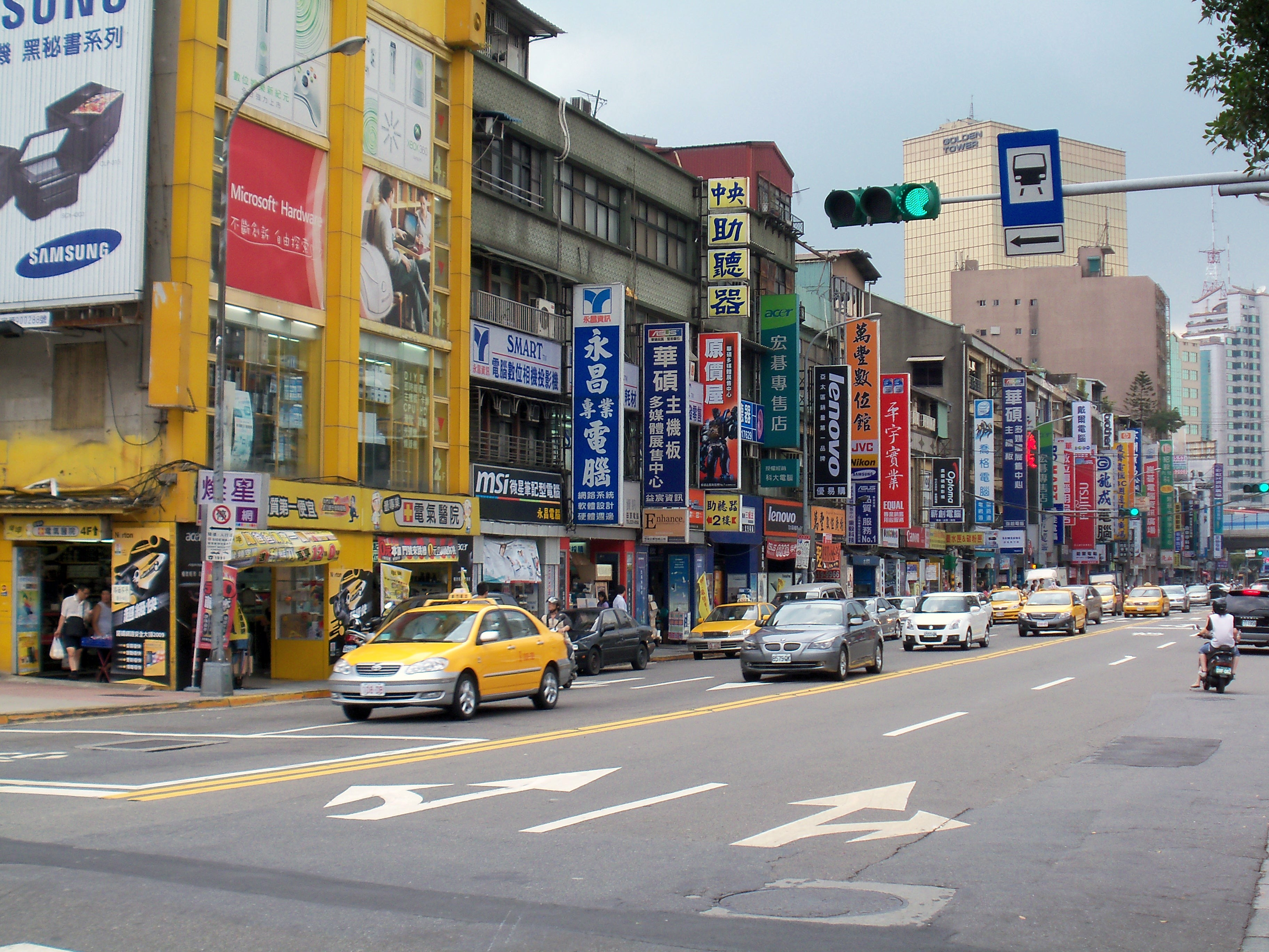 Electricity street in Bade Road, Naka-gun, Taipei City.